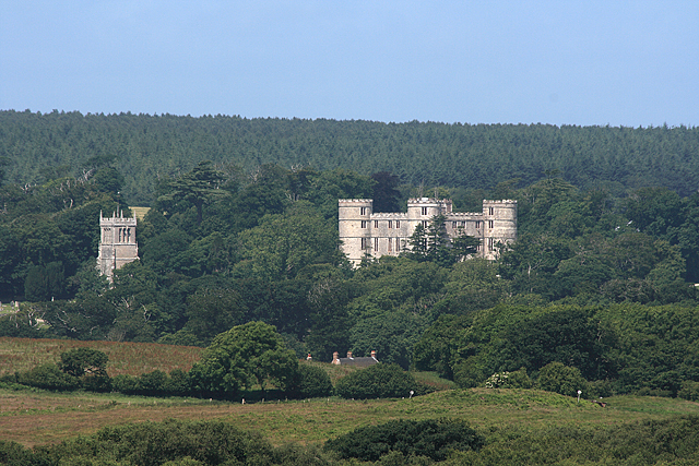 Lulworth Castle and Church A view of the castle and parish church from the roadside of Whiteway Hill.